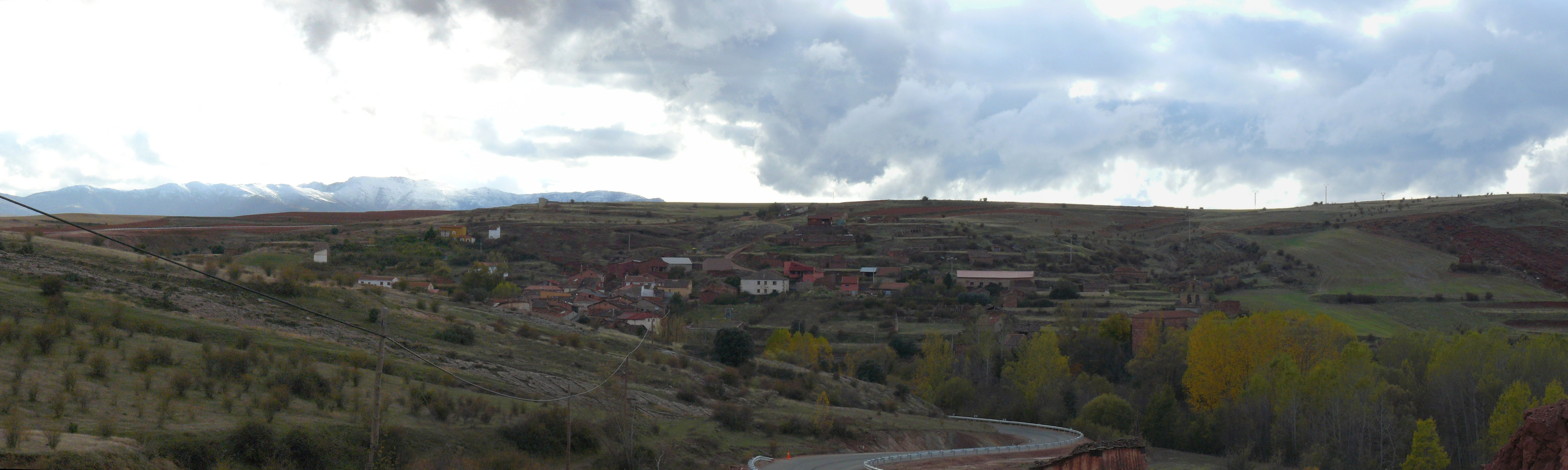 Panoramic view of Cuevas de Ayllón, Soria (Spain)